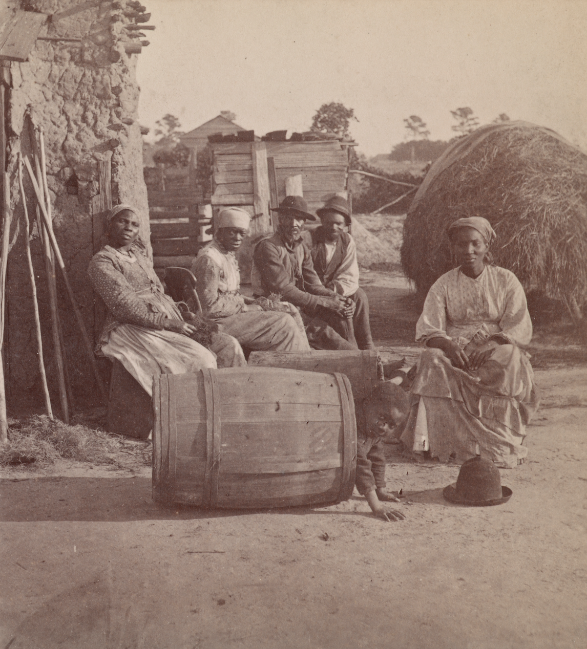 Date Created: 1868 - 1900 (Questionable) Date Created: 1850 - 1930 (Approximate) RLIN/OCLC: NYPG92-F136 NYPL catalog ID (B-number): b16091972 Universal Unique Identifier (UUID): aa09fae0-c574-012f-9563-58d385a7bc34